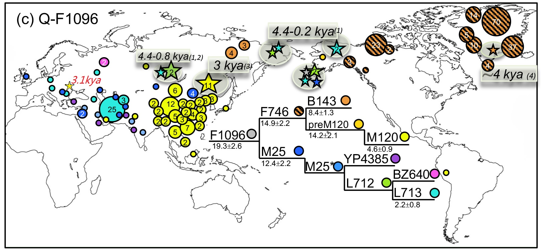 Q1a-F1096 Global Distribution Map